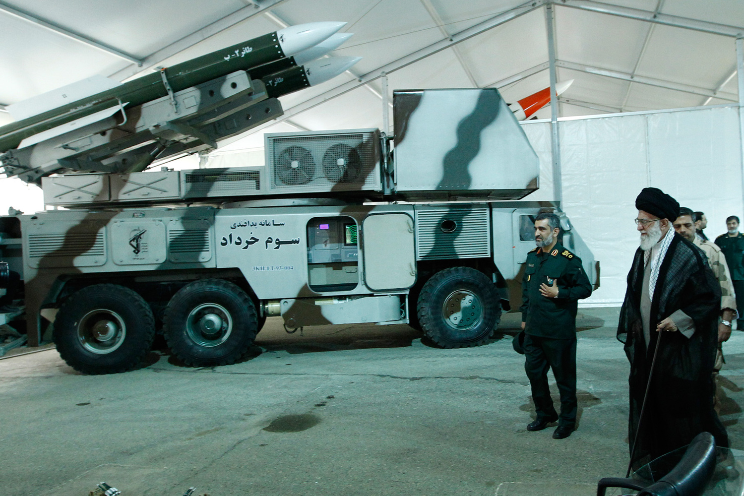 Sevvom Khordad Anti-aircraft warfare